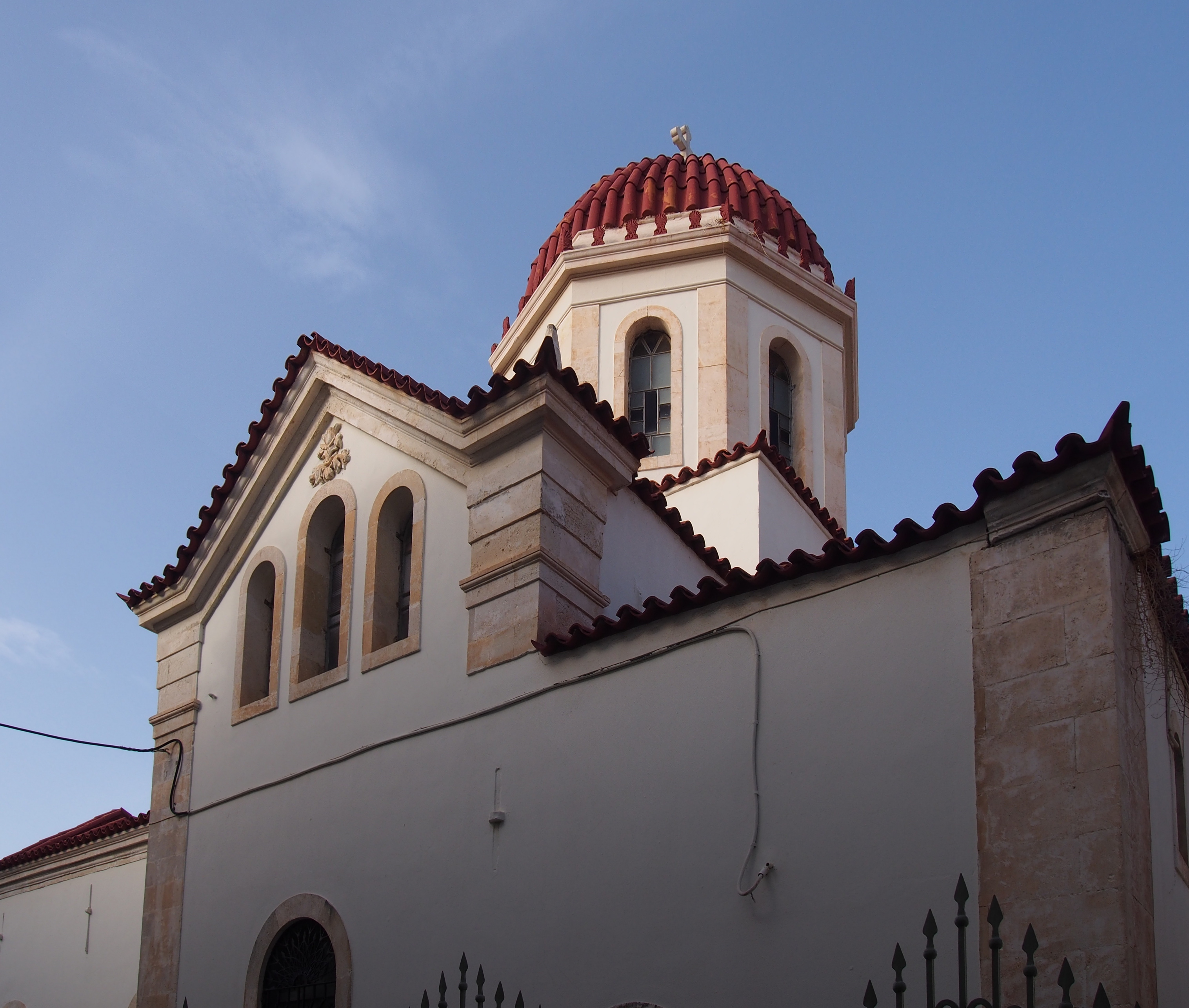 View of the chuch of Agia Varvara, the patron saint of Rethymno. The church was built in 1885.